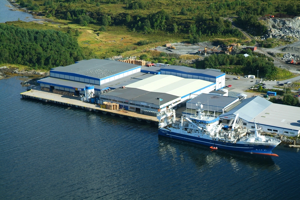 Picture of plant